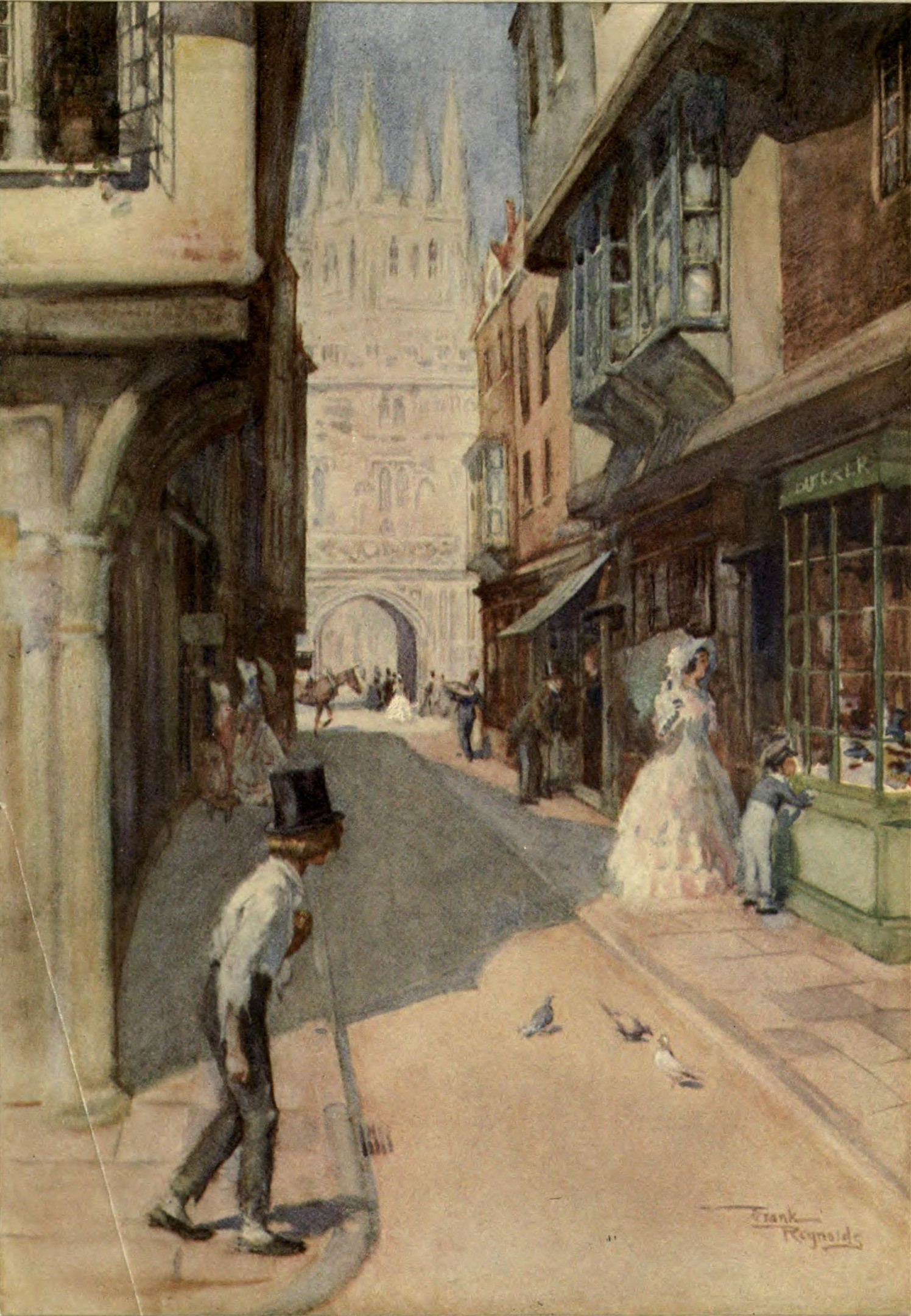 David reaches Canterbury, from Charles Dickens' David Copperfield.